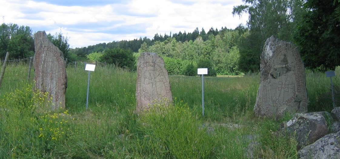 Runestones U 136 (left), U 137 (middle) and U 135 (right) at Broby bro, Uppland, Sweden.